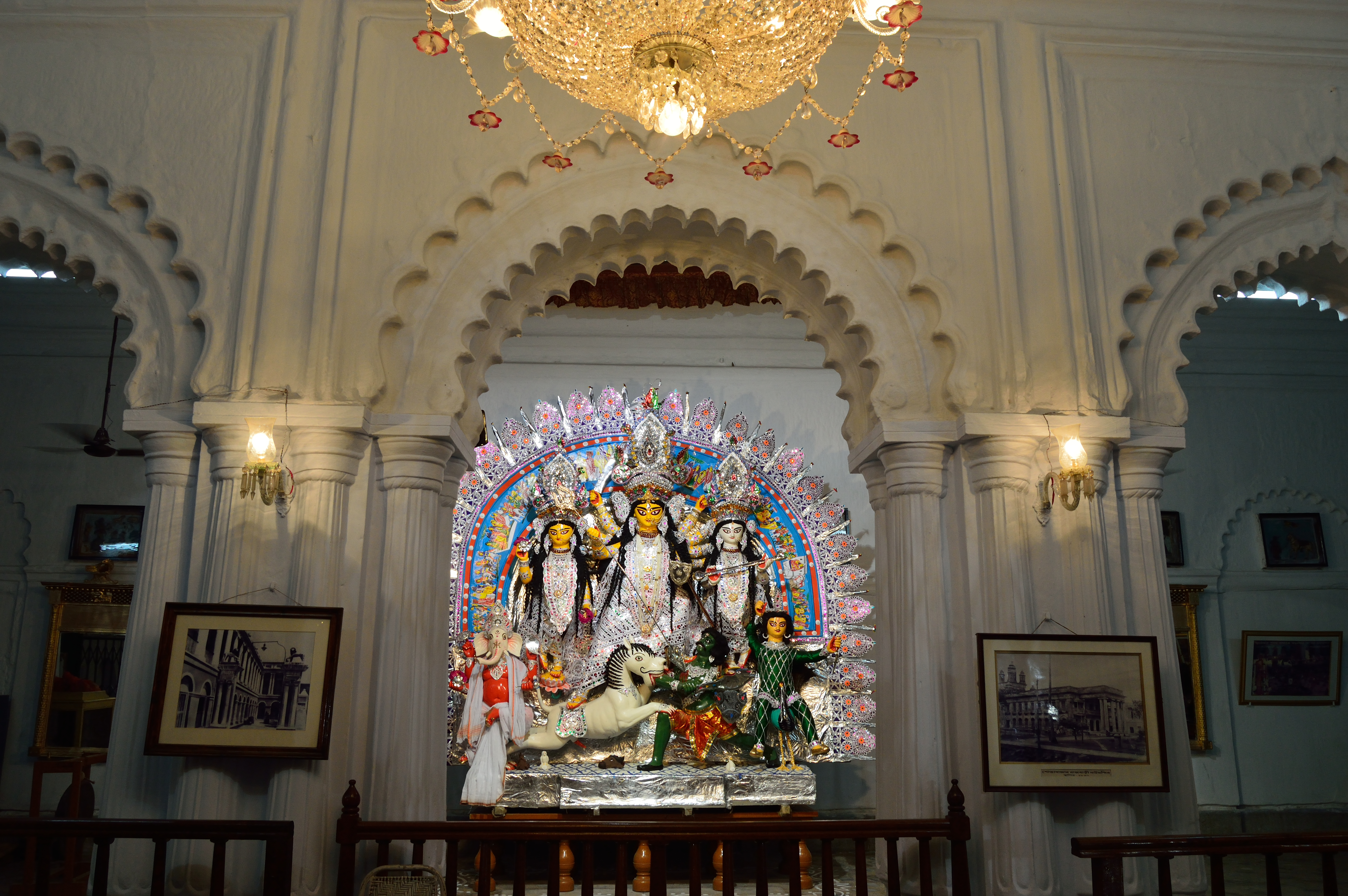 Photographed in Greater Kolkata.